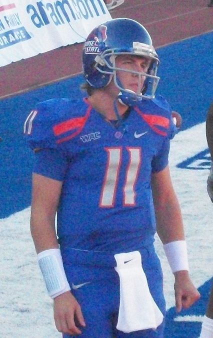 Boise State Junior quarterback Kellen Moore during pregame before a game vs Oregon State in Bronco Stadium in Boise, Idaho on September 25, 2010.